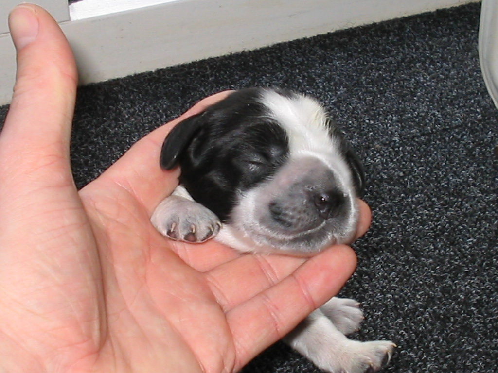 An English Cocker Spaniel puppy Author: M.Minderhoud